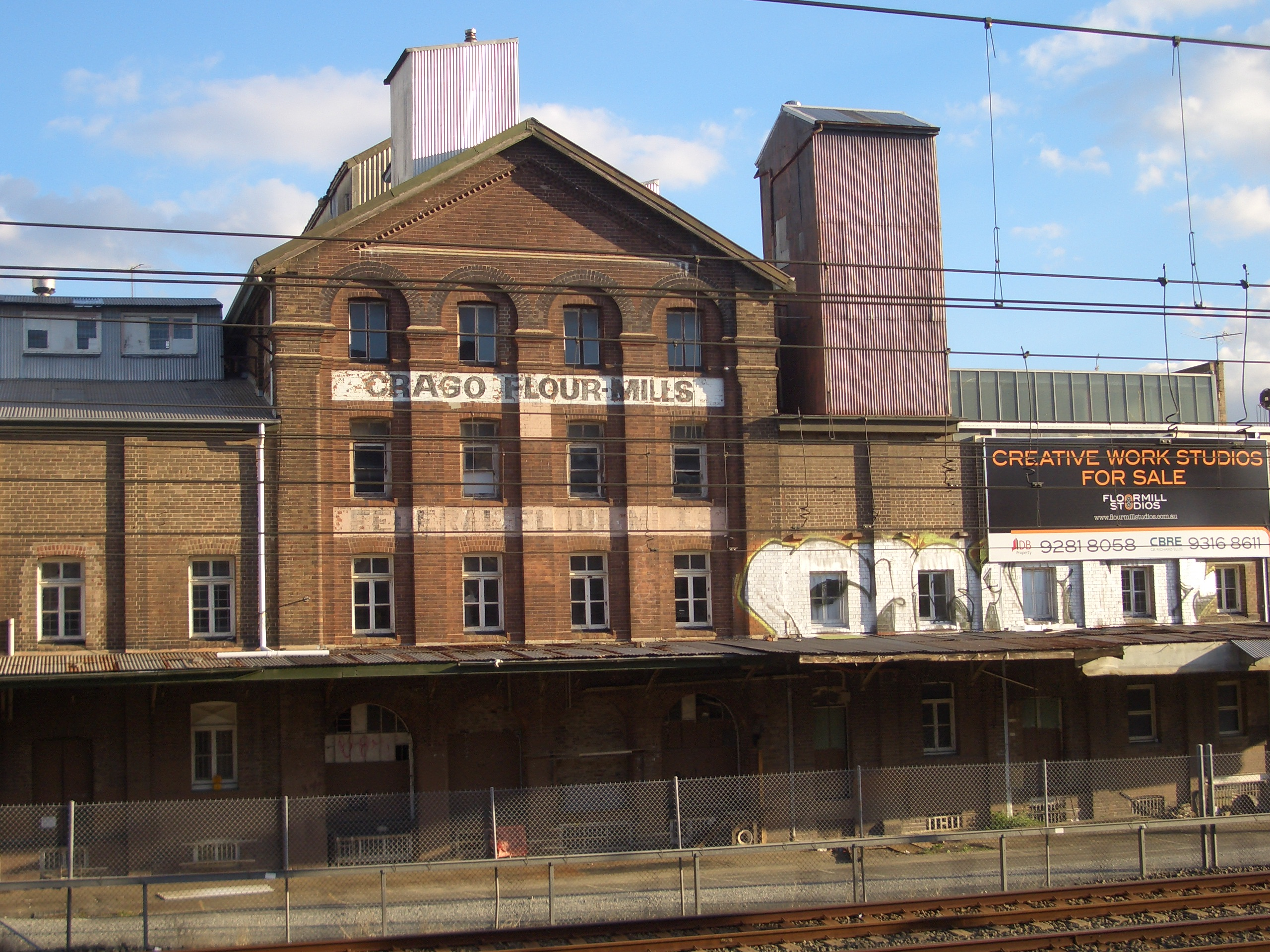 Crago_Flour_Mill, Newtown, Sydney, Australia